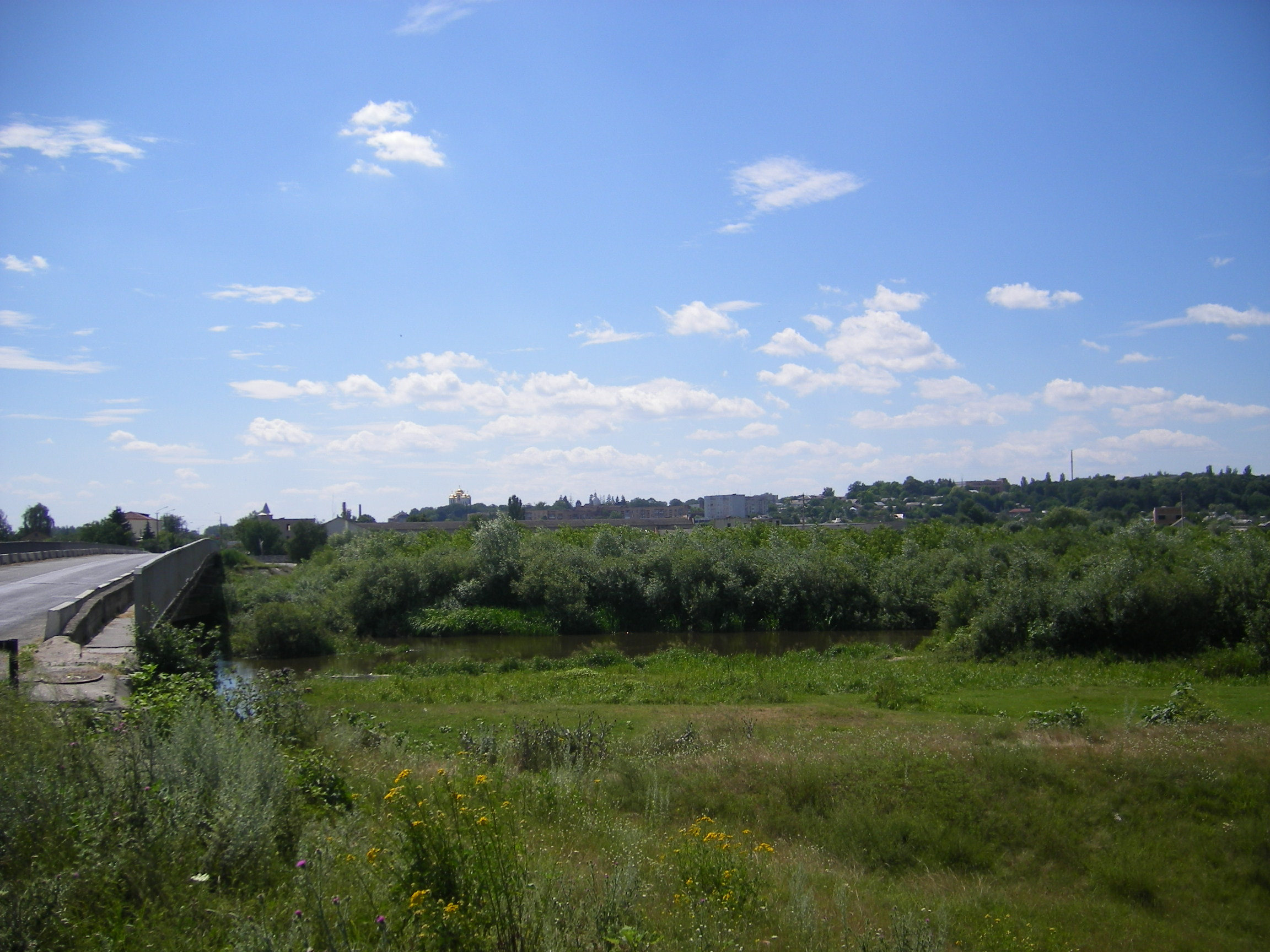 Ostroh, Wilia River